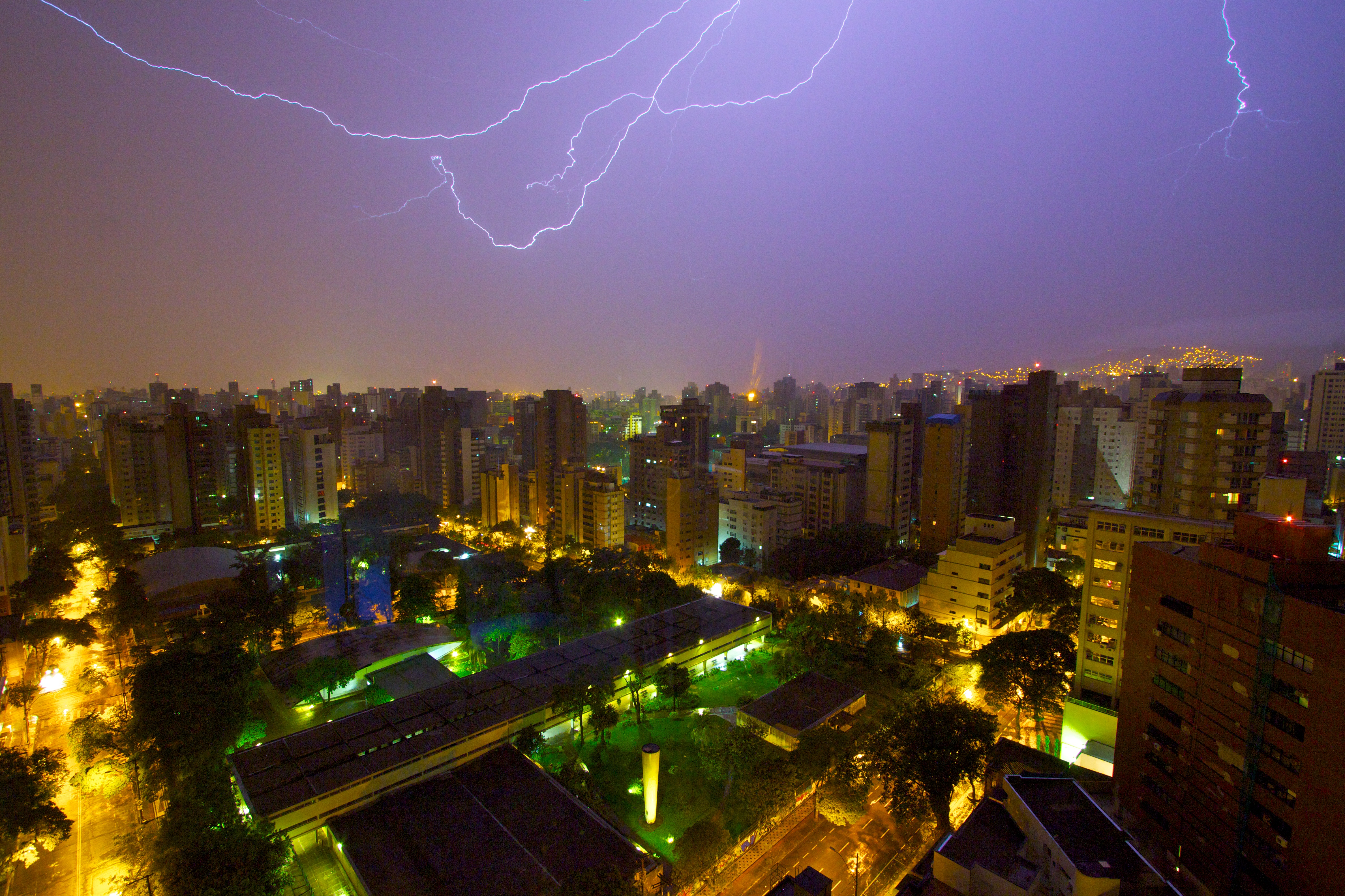 Lightning in Belo Horizonte, Minas Gerais, Brazil